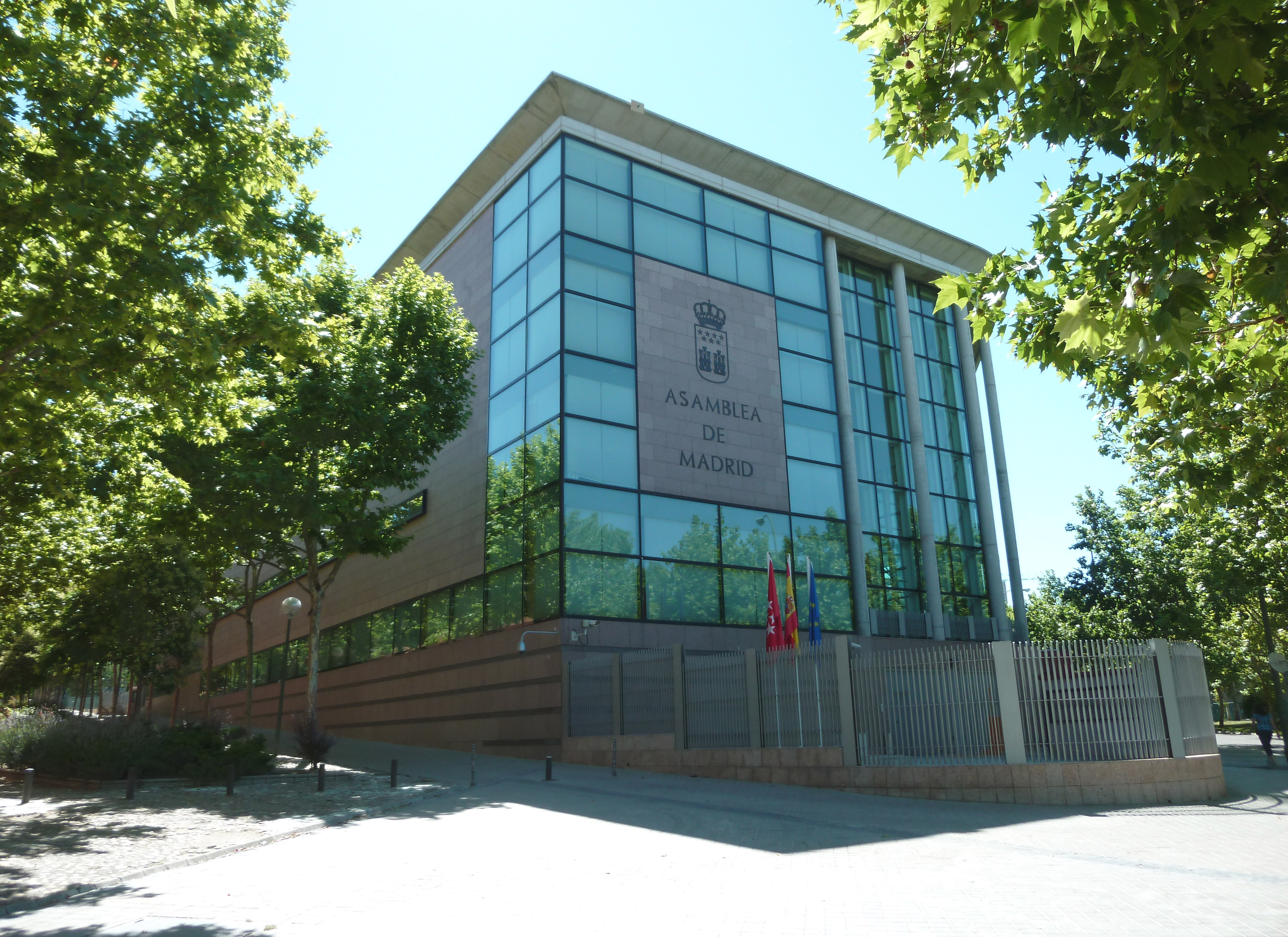 Façade of the Madrid Assembly, in Puente de Vallecas district in Madrid (Spain). Address: 1st Plaza de la Asamblea de Madrid (square). Building was projected by Ramón Valls and Juan Blasco and inaugurated in 1998.